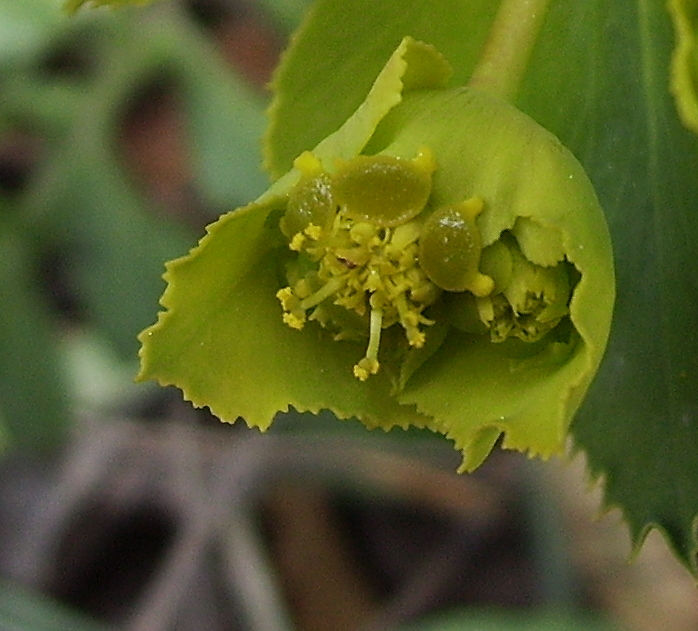 Euphorbia serrata lower showing nectaries at te upper side, Castelltallat, Catalonia